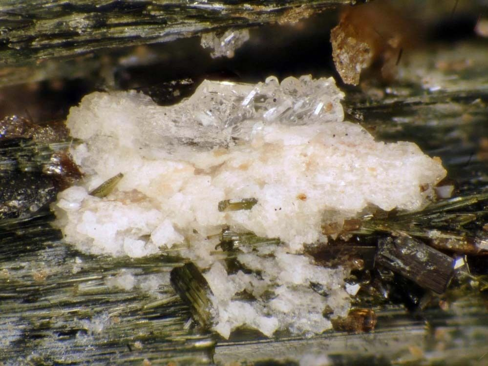 White crystals of the extremely rare and relatively new mineral (IMA 2007-008) andrianovite from the type and only known locality worldwide: Koashva Mountain, Khibiny Massif, Kola, Russian Federation.